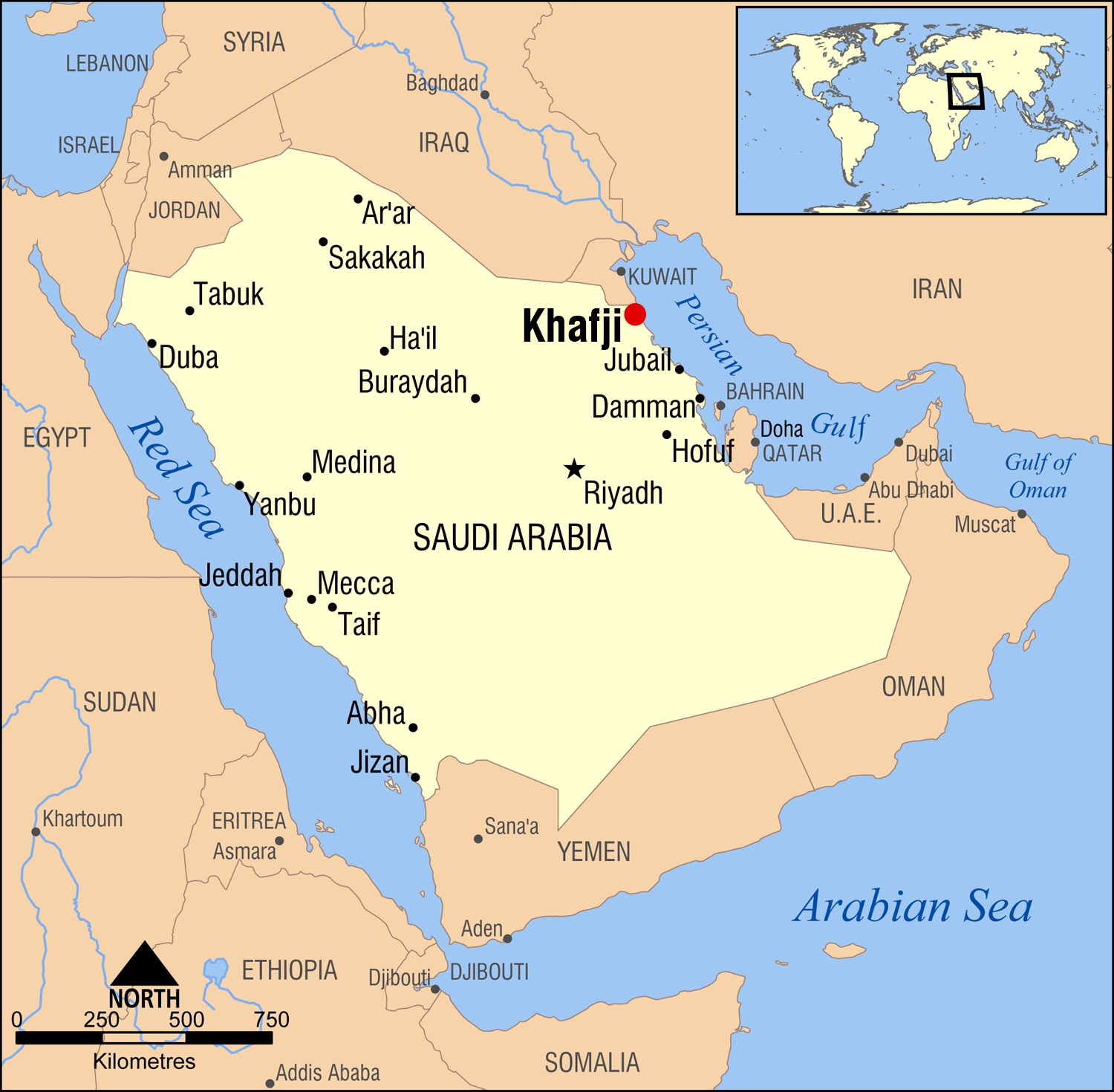 Locator map of Khafji, Saudi Arabia. Created by NormanEinstein, May 5, 2006.